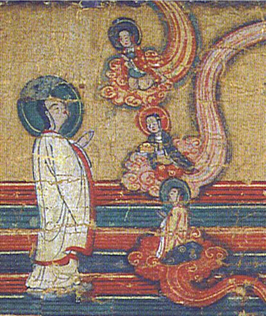 “Mani as observer”, detail of the Diagram of the Universe.